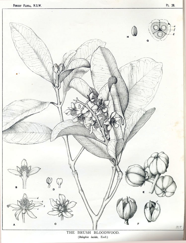 Brush Bloodwood, Baloghia lucida Endl., Plate 28 from Forest Flora of New South Wales by by Joseph Henry Maiden (1859–1925)